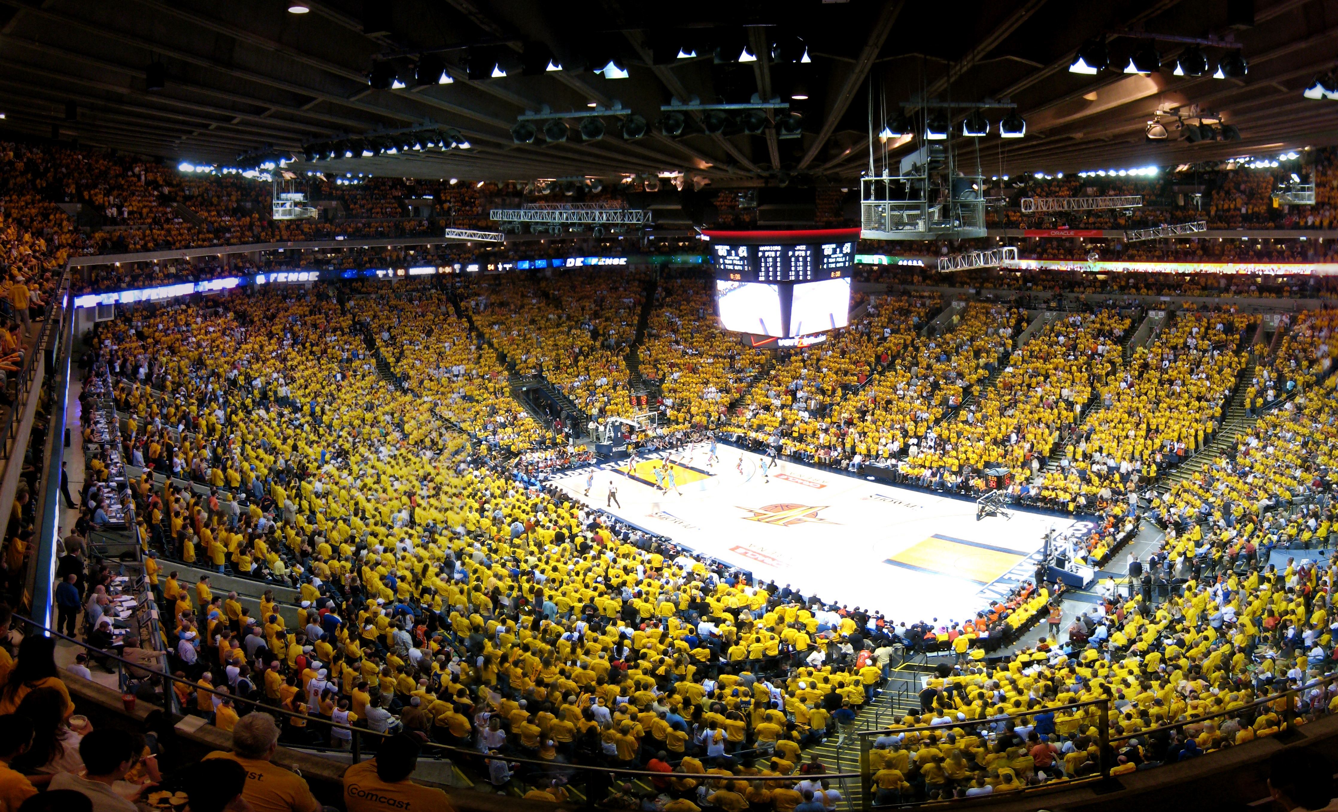 Golden State Warriors play the Utah Jazz in the w:2007 NBA Playoffs.